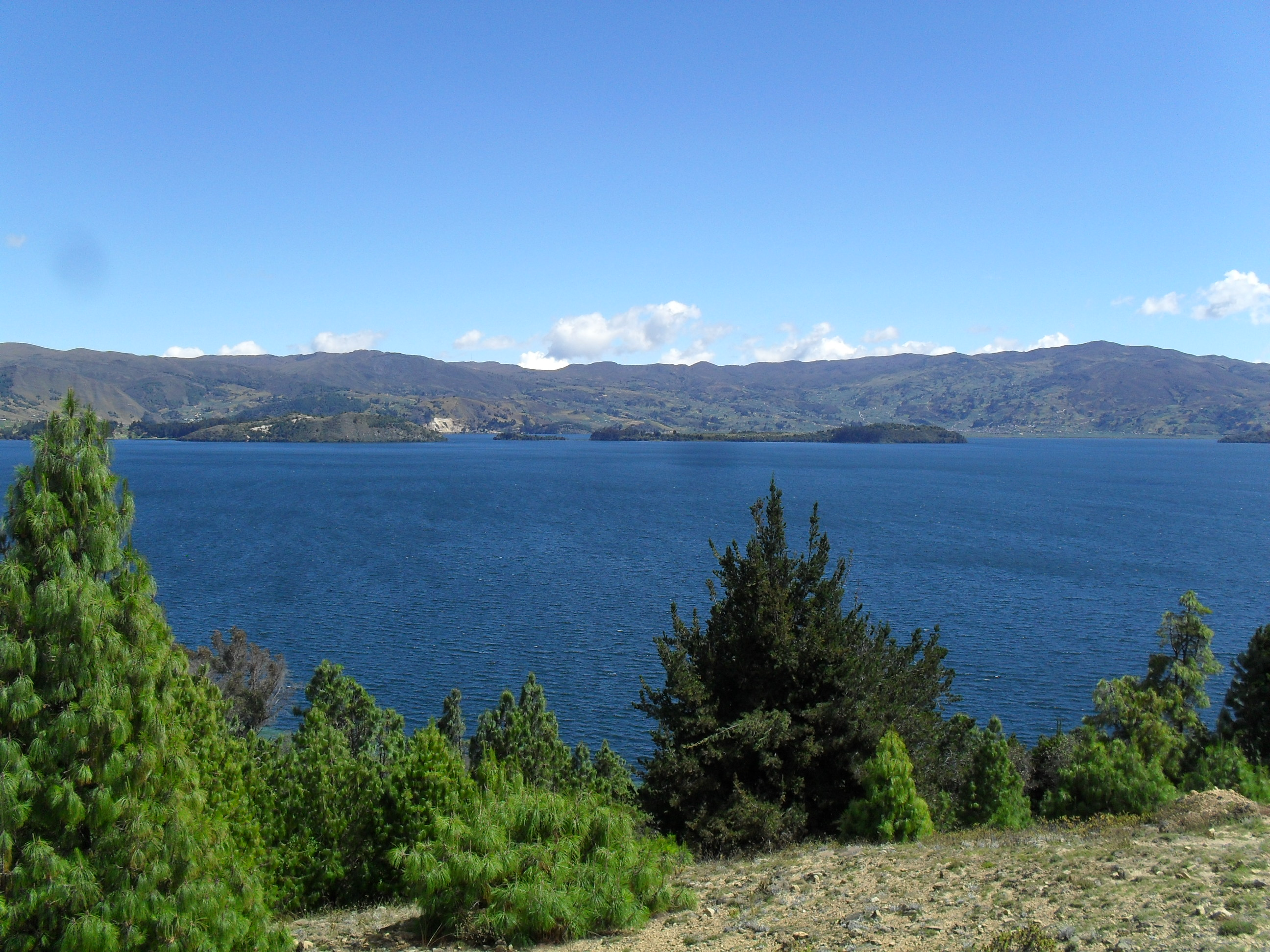 Tota Lake in Boyacá Departament, Colombia